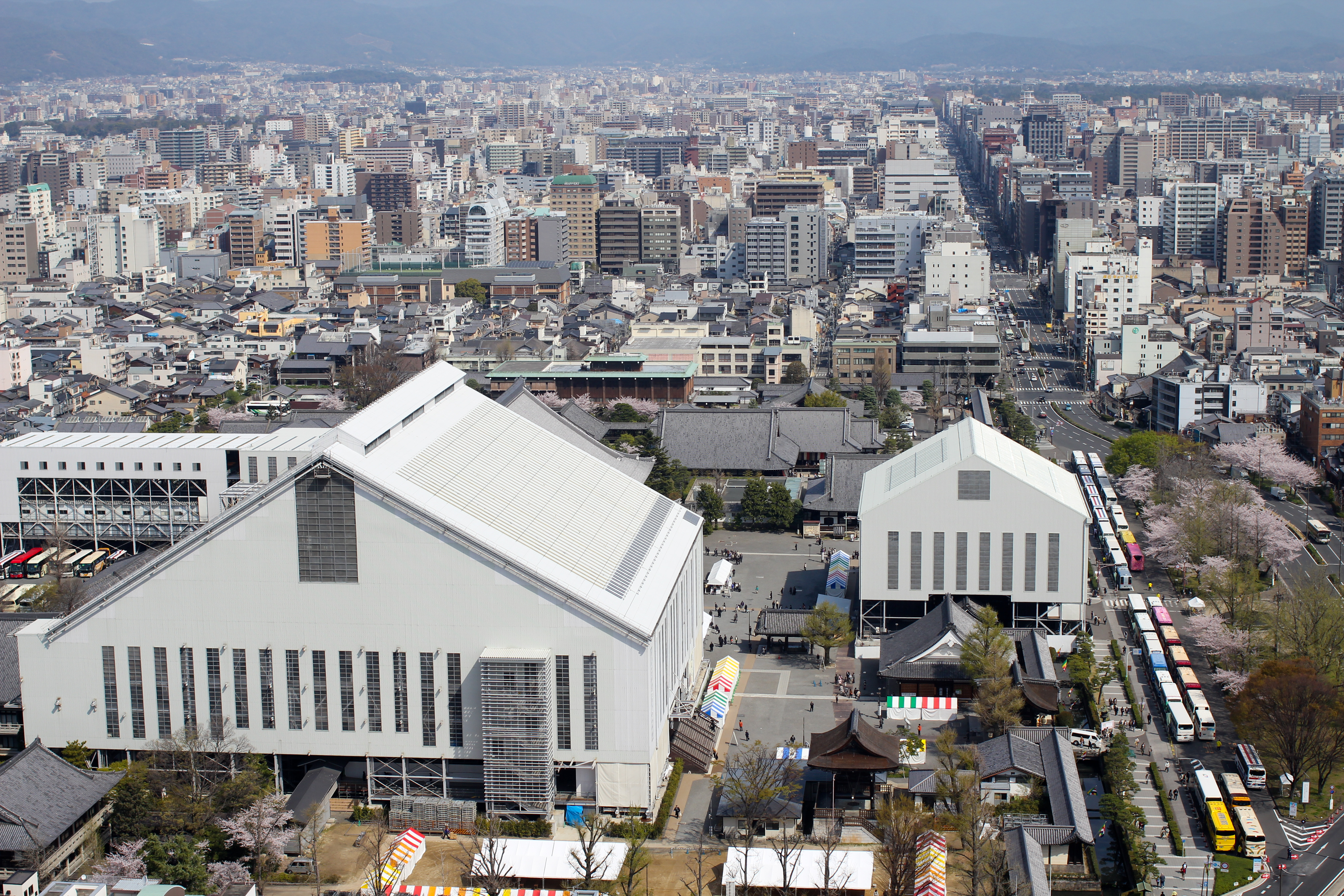 Kyoto (京都市) and Karasuma Street (烏丸通 Karasuma Dōri), a major south-north street in the central Kyoto, Japan. It is part of National Route 24 and National Route 367. The Karasuma Line subway runs underground of the street.